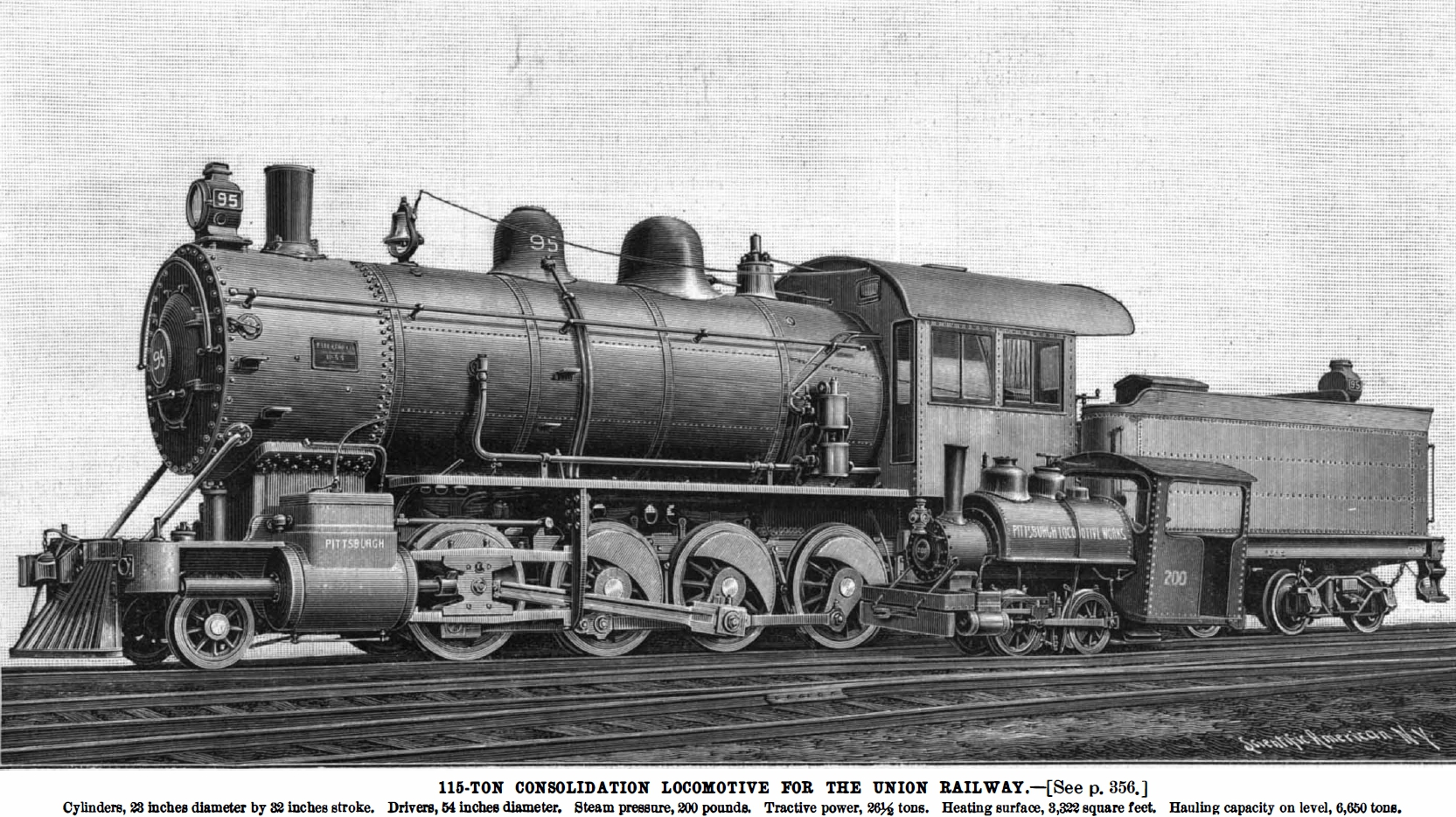 Comparison of the (until then) heaviest US locomotive and a tiny yard locomotive - both made by Pittsburgh Locomotive & Car Works